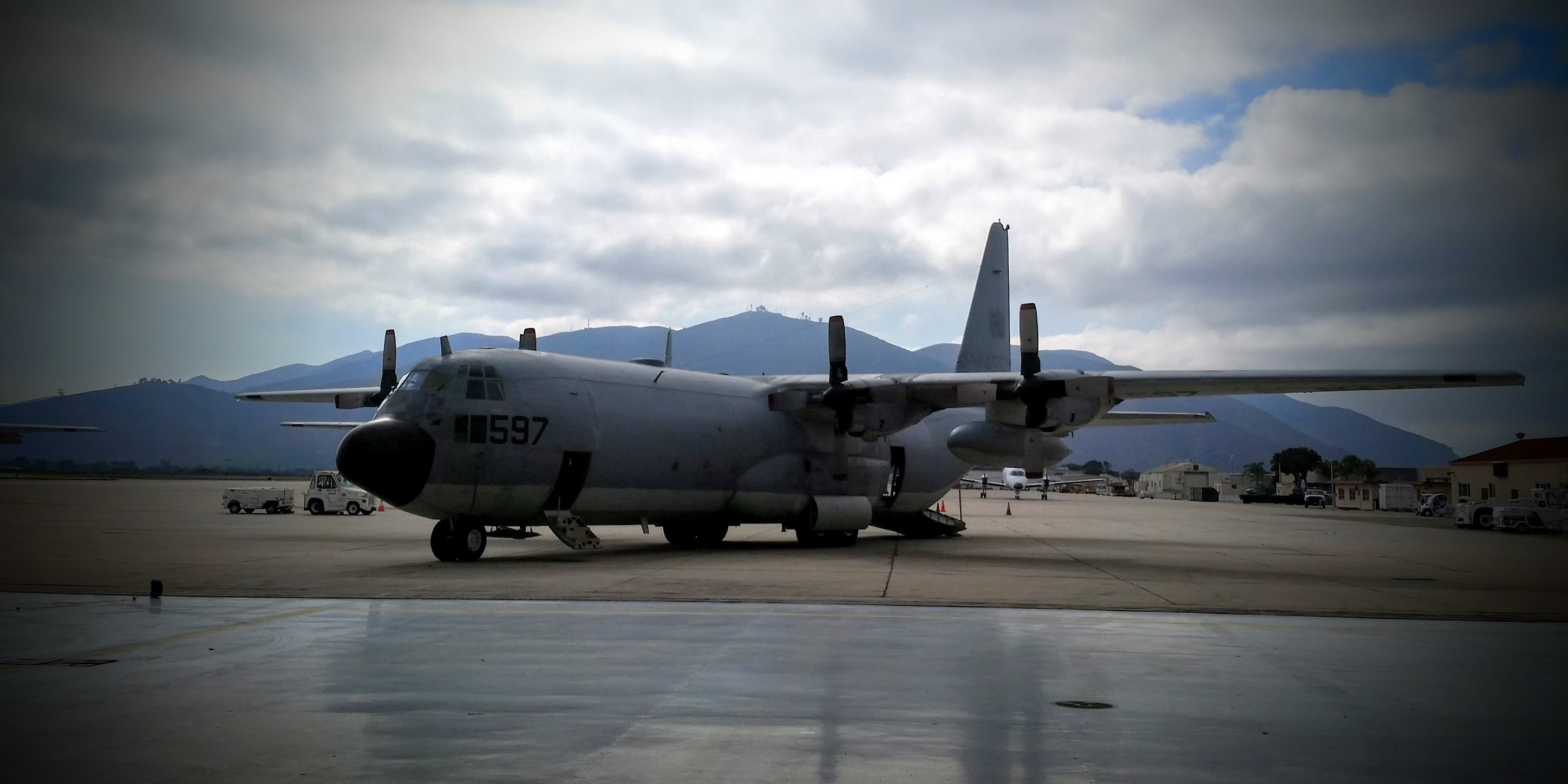 C-130T BuNo 164597 in front of VR-55's hangar at NAS Point Mugu, Ca.